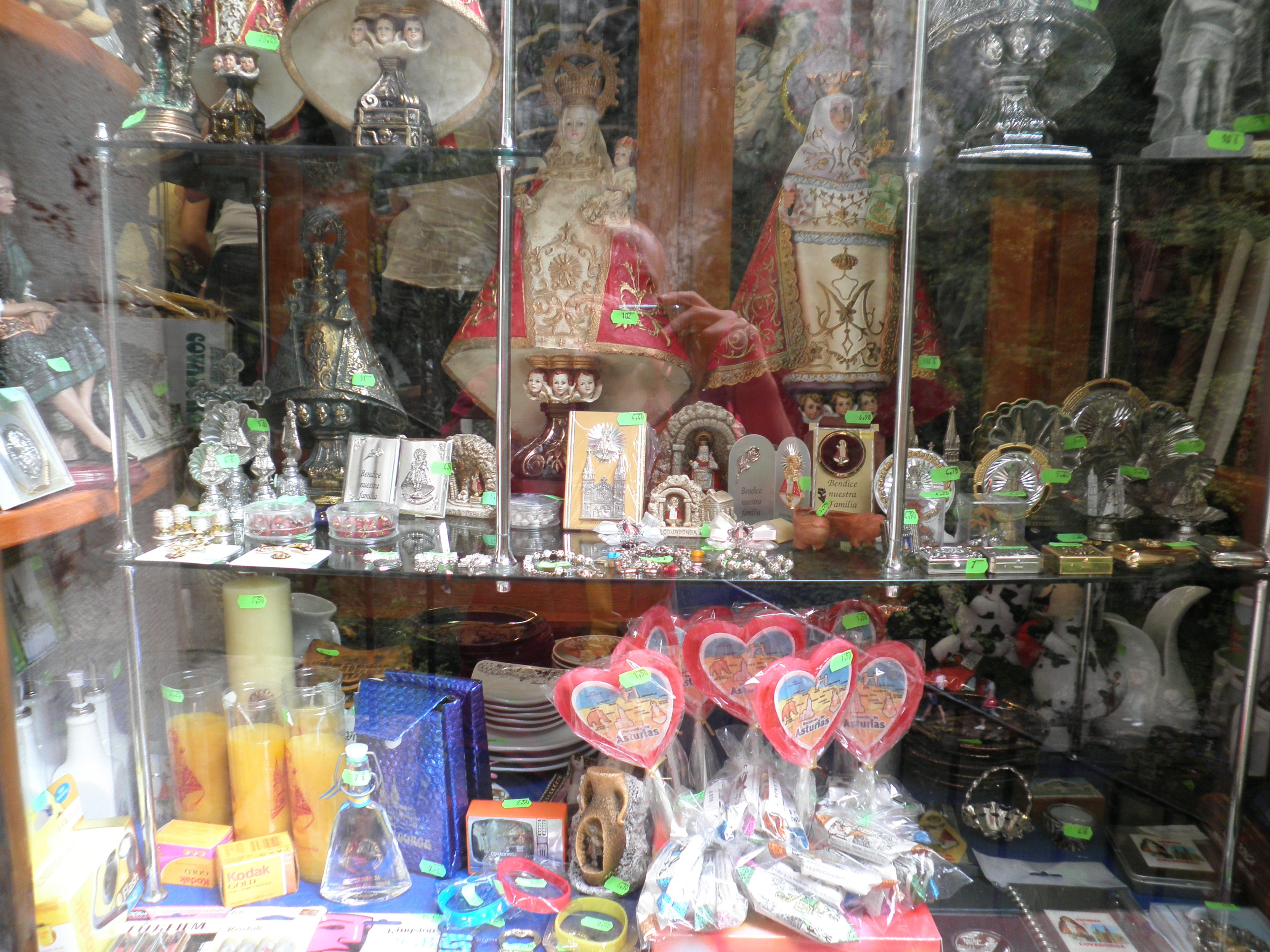 Souvenir shop in Covadonga, Asturias